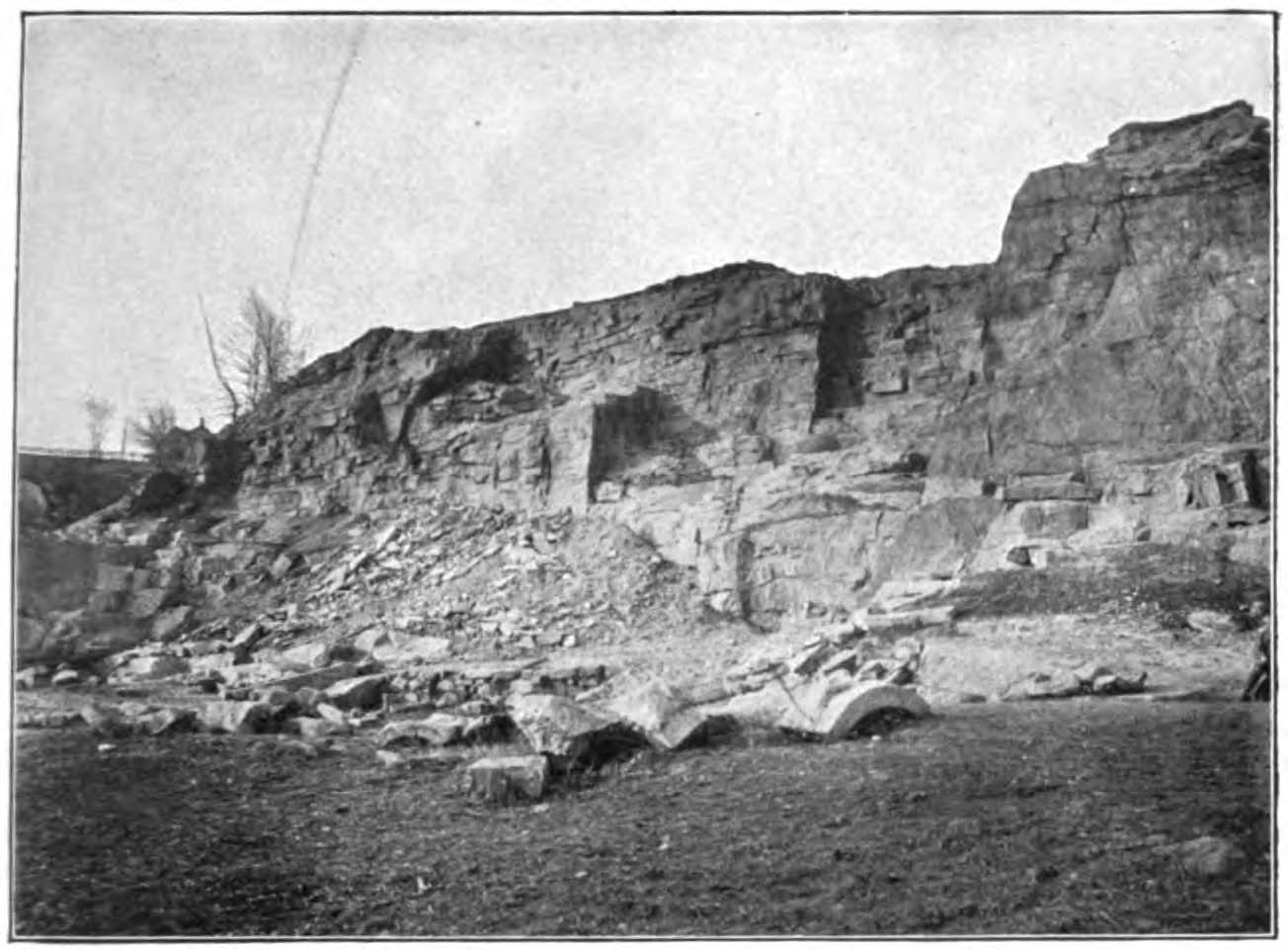 Plate IV A Original caption: "Gaither's Granite Quarry, Ellicott City, Maryland." Text from the volume referring to the figure: Several quarries opened in the steep and moderately high granite cliffs along the east side of Patapsco River have been operated nearly opposite Ellicott City. The largest of these, known as the Gaither quarry, comprises two large openings that adjoin each other and have been worked back from the river into the granite cliffs, with an elevation from the base to the top of about 75 feet. (See Pl. IV, A.) The rock is a biotite granite of medium dark blue-gray color and medium grain. Its structure is decidedly foliated or schistose, though much less pronouncedly so than that of the granite gneiss at Port Deposit and Frenchtown; and its original granite characters are still apparent. Hand specimens of the granite show abundant fine granules of yellow epidote closely associated with the biotite. Irregular grains of brownish allanite are also apparent in the hand specimens. Because of its richness in epidote and allanite Keyes classified this granite and some of the granites from the Port Deposit, Woodstock, Dorseys Run, and Ilchester localities as allanite-epidotebearing granites. The granite consists of soda-lime feldspar (oligoclase), potash feldspars (orthoclase and microcline), quartz, and biotite, together with accessory zircon, apatite, hornblende, allanite, epidote, and secondary chlorite and epidote. Intergrowths of the feldspar and quartz in more or less rounded grains are of common occurrence. The feldspar is partly cloudy and opaque from alteration, and the larger individuals inclose small rounded grains of feldspar and quartz. Allanite and epidote occur as parallel growths. Partial granulation of the quartz and feldspar into fine mosaics from pressure metamorphism is pronounced.